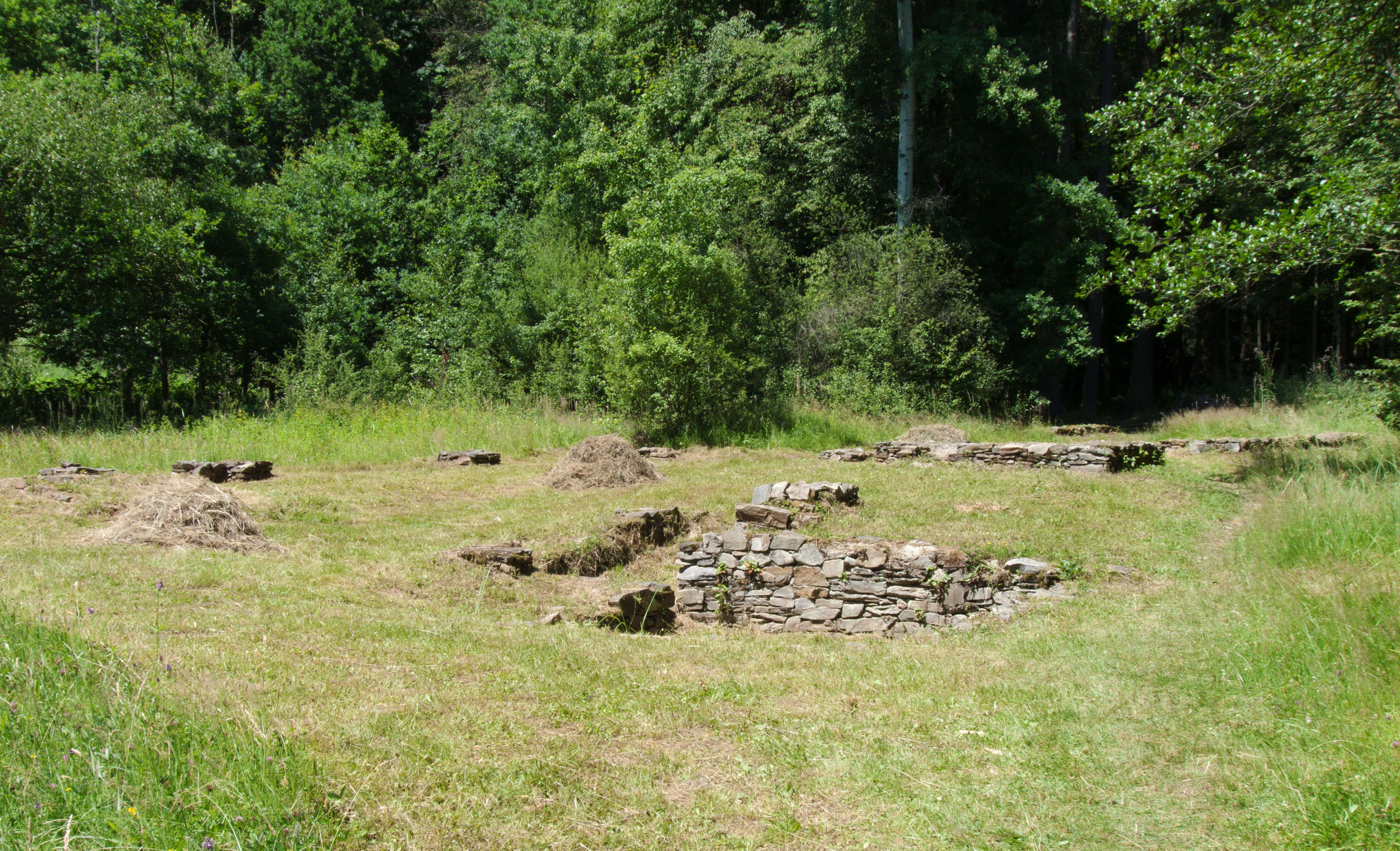 Ruins of the Mikš court in the north part of the Jan Žižka Monument near Trocnov, České Budějovice District, Czech Republic. The local information board says it existed from the late 14th to the early 17th century. Česky: Pozůstatky Mikšova dvorce v severní části areálu Památníku Jana Žižky poblíž Trocnova, okres České Budějovice. Dle místní informační tabule existoval od konce 14. do začátku 17. století.